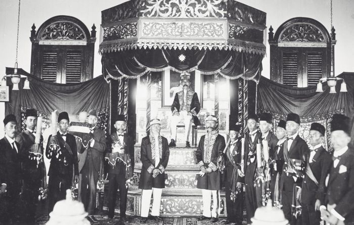 Group portrait with Maulana Mohamad Djalaloeddin, Sultan of Bulungan, sitting on his throne